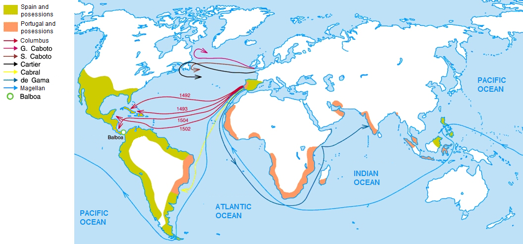 Age of Discovery